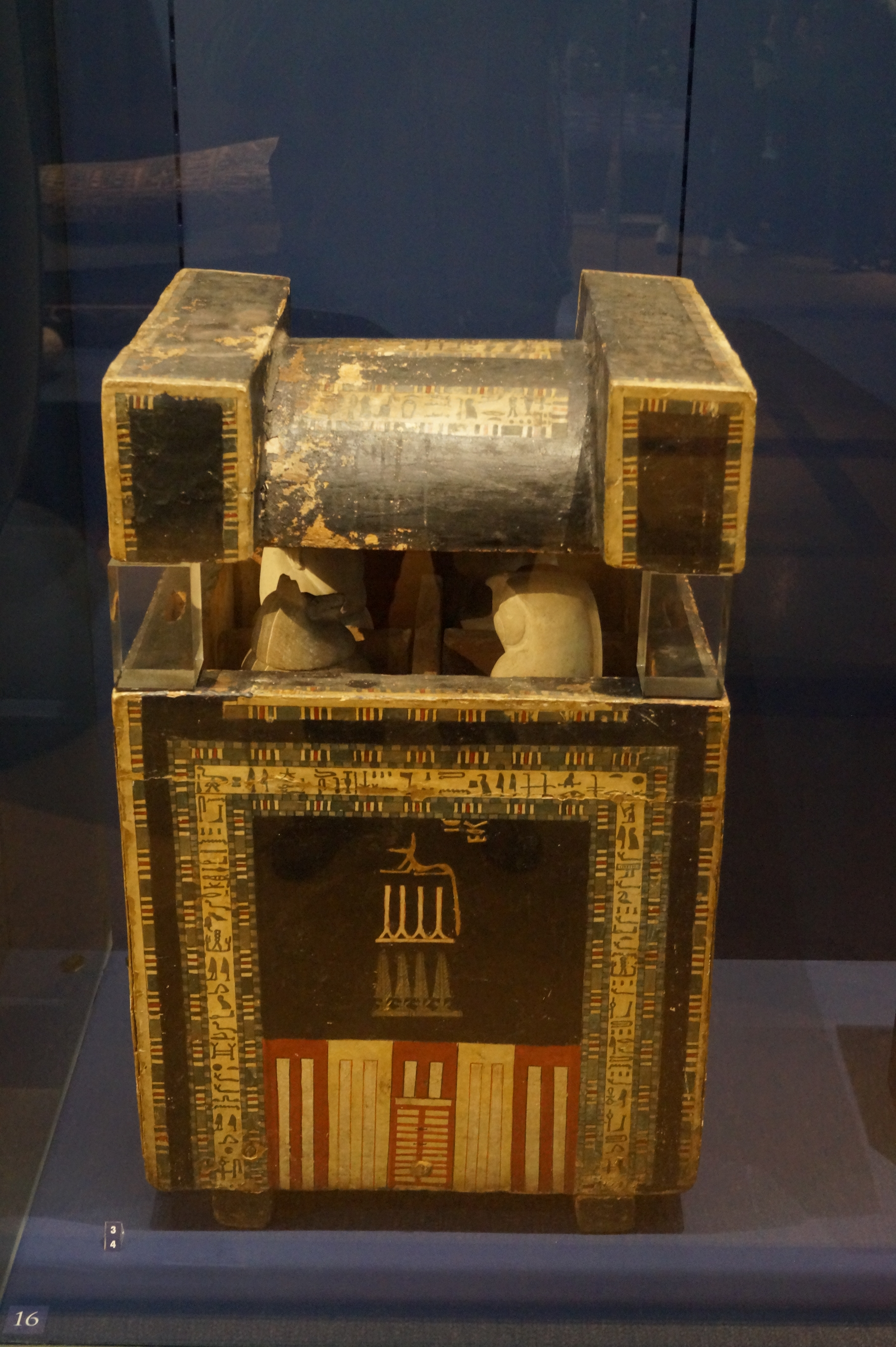 Egyptian antiquities in the Pushkin Museum, Moscow